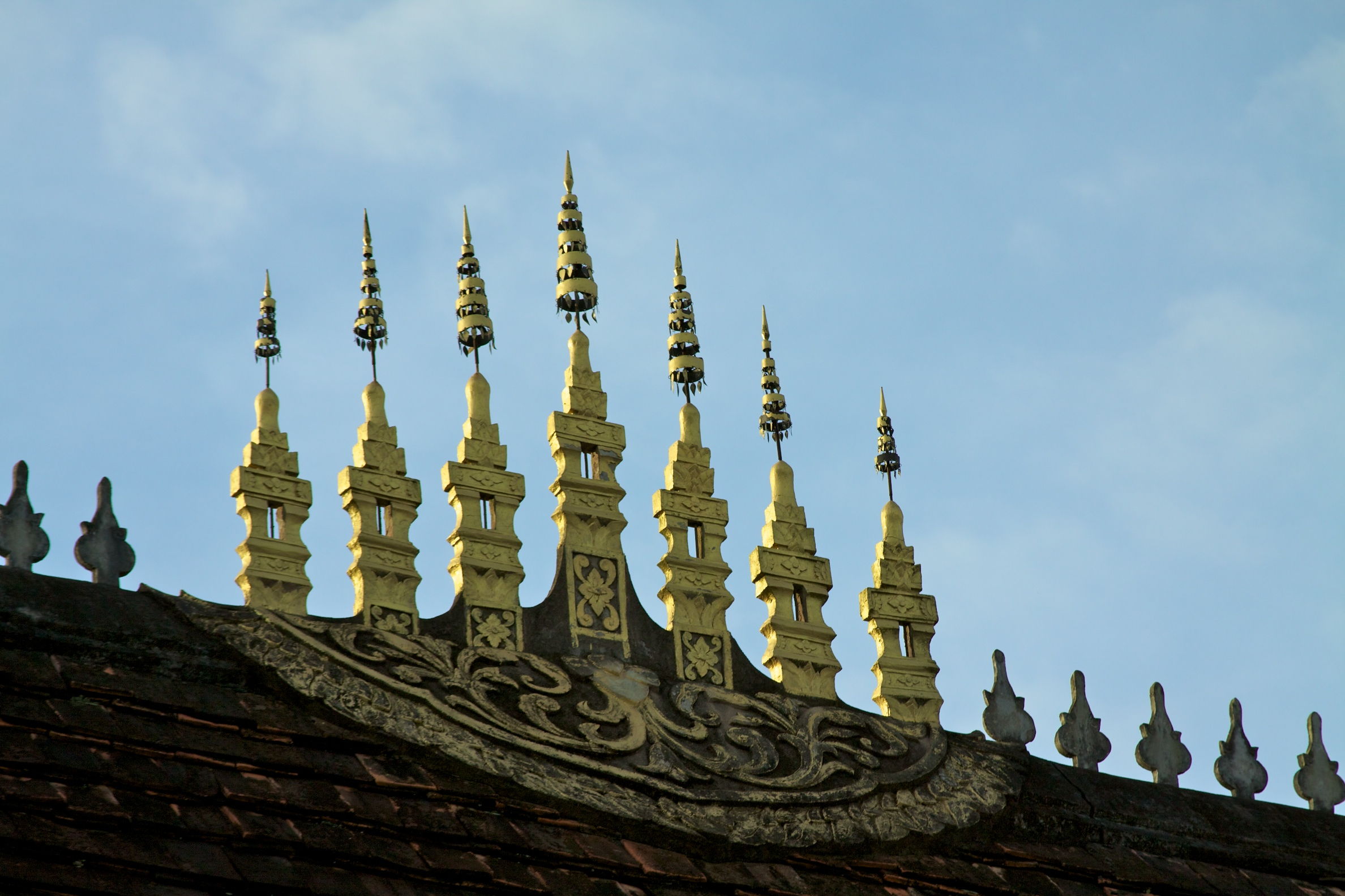 Laos - Luang Prabang 82 - intricate monastery roof